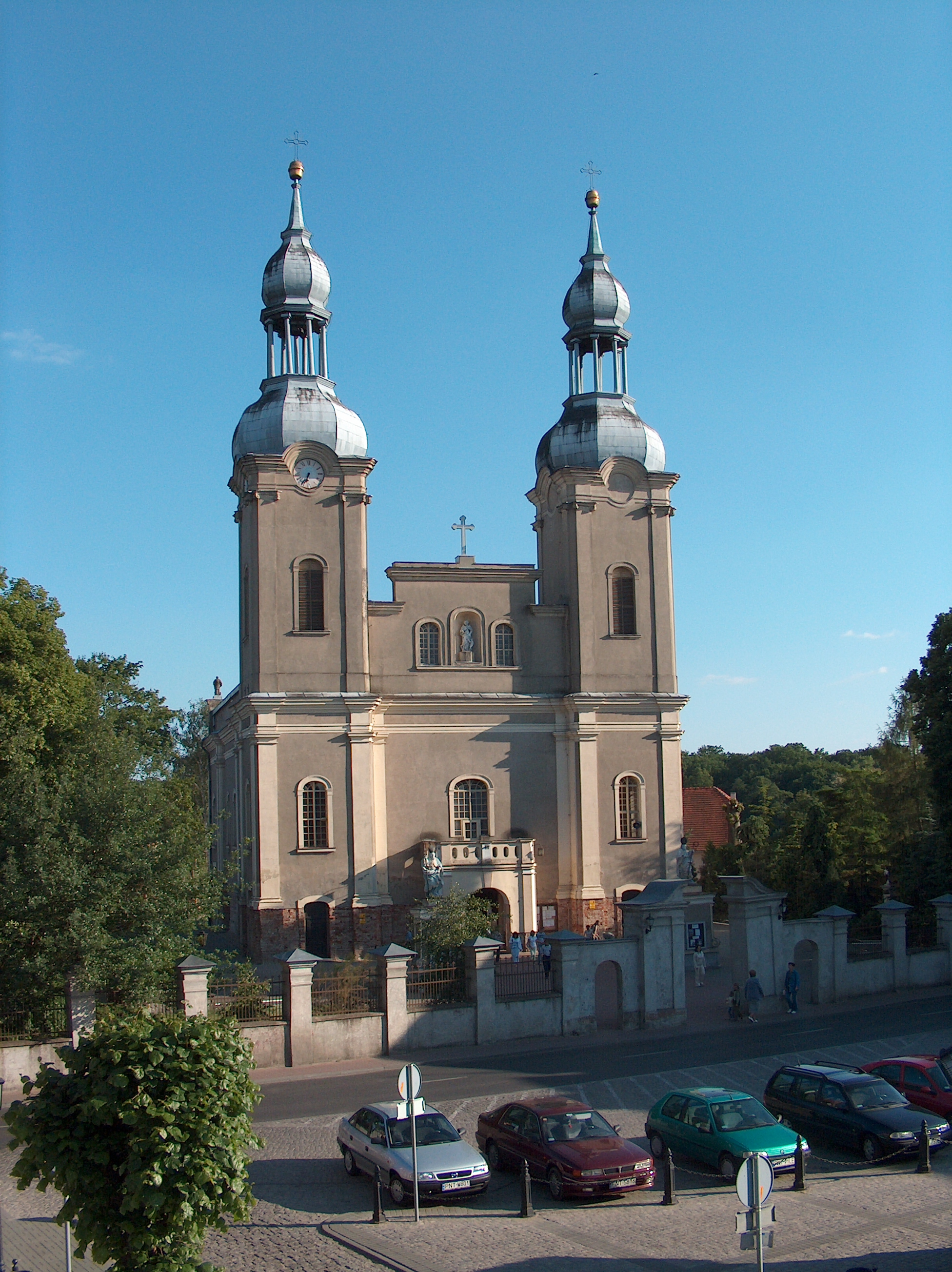 Church p.w. Najświętszej Maryi Panny Wniebowziętej in Zbąszyń, Poland